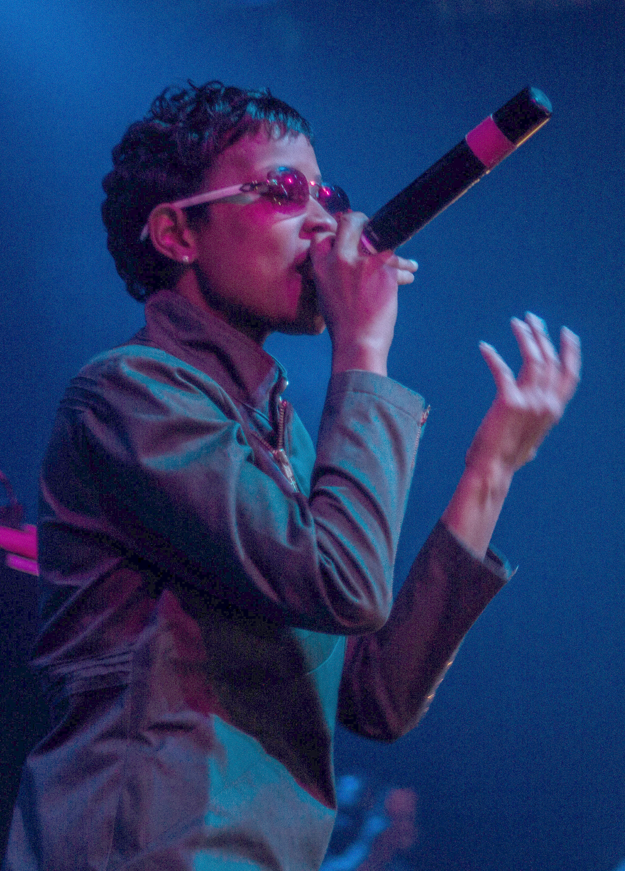 DeJ Loaf performing in Toronto at Kool Haus in January 2015.